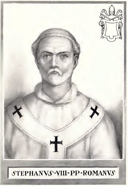 This illustration is from The Lives and Times of the Popes by Chevalier Artaud de Montor, New York: The Catholic Publication Society of America, 1911. It was originally published in 1842. Before Pope-elect Stephen was removed from most lists of popes, Stephen VII was referred to as Stephen VIII.